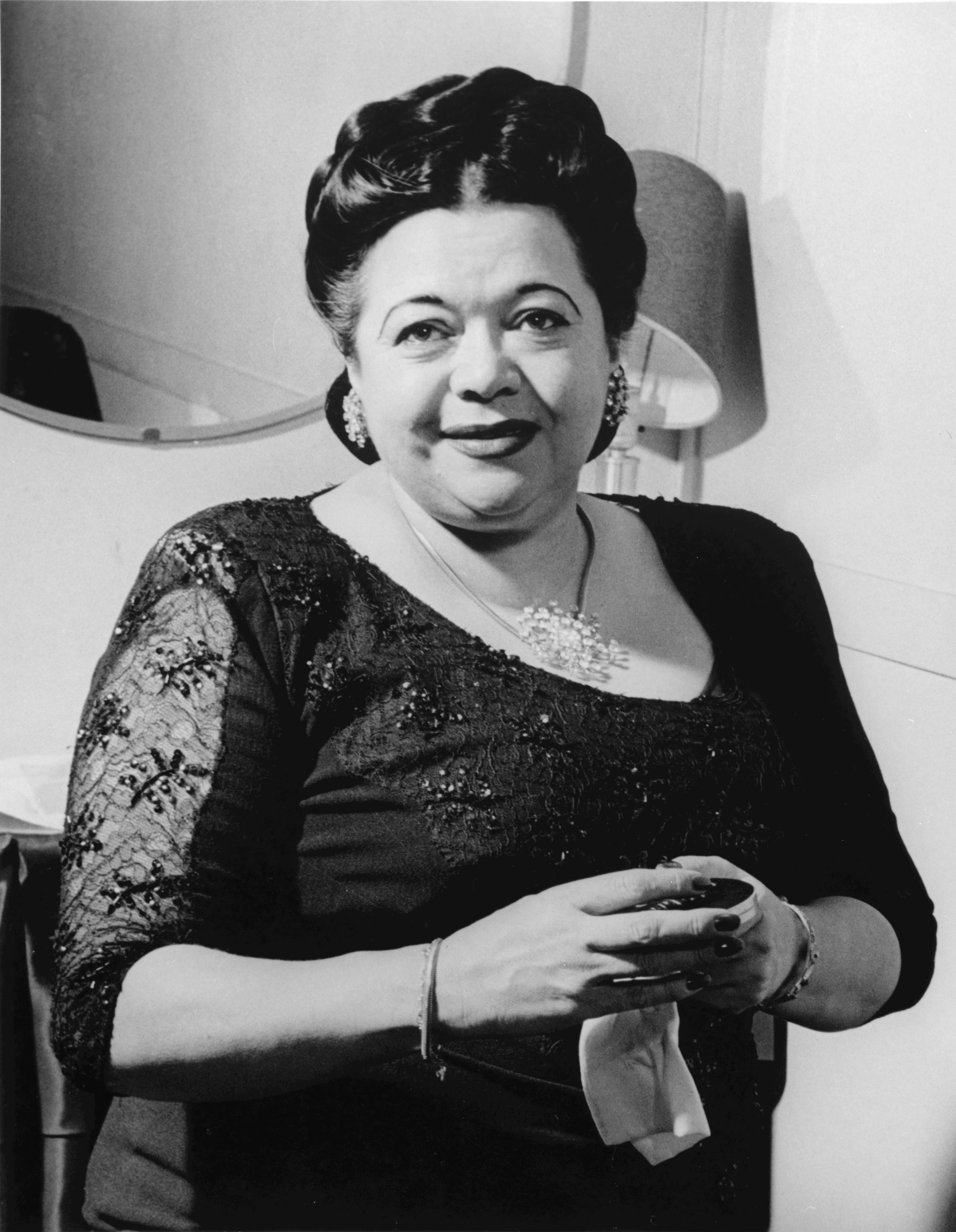 Portrait of Mildred Bailey, Aquarium, New York, N.Y.